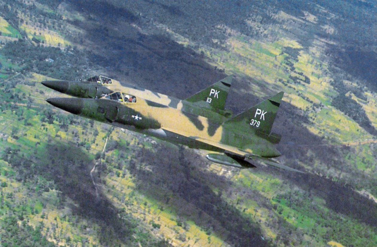 Two USAF Convair F-102A Delta Dagger interceptors of the 509th Fighter Interceptor Squadron over Vietnam in November 1966. Originally deployed to escort bombers over North Vietnam and defend South Vietnamese airspace against possible North Vietnamese bombers, they provided close air support for allied ground forces in South Vietnam. 14 F-102s would be lost during the war, 1 in air to air combat.